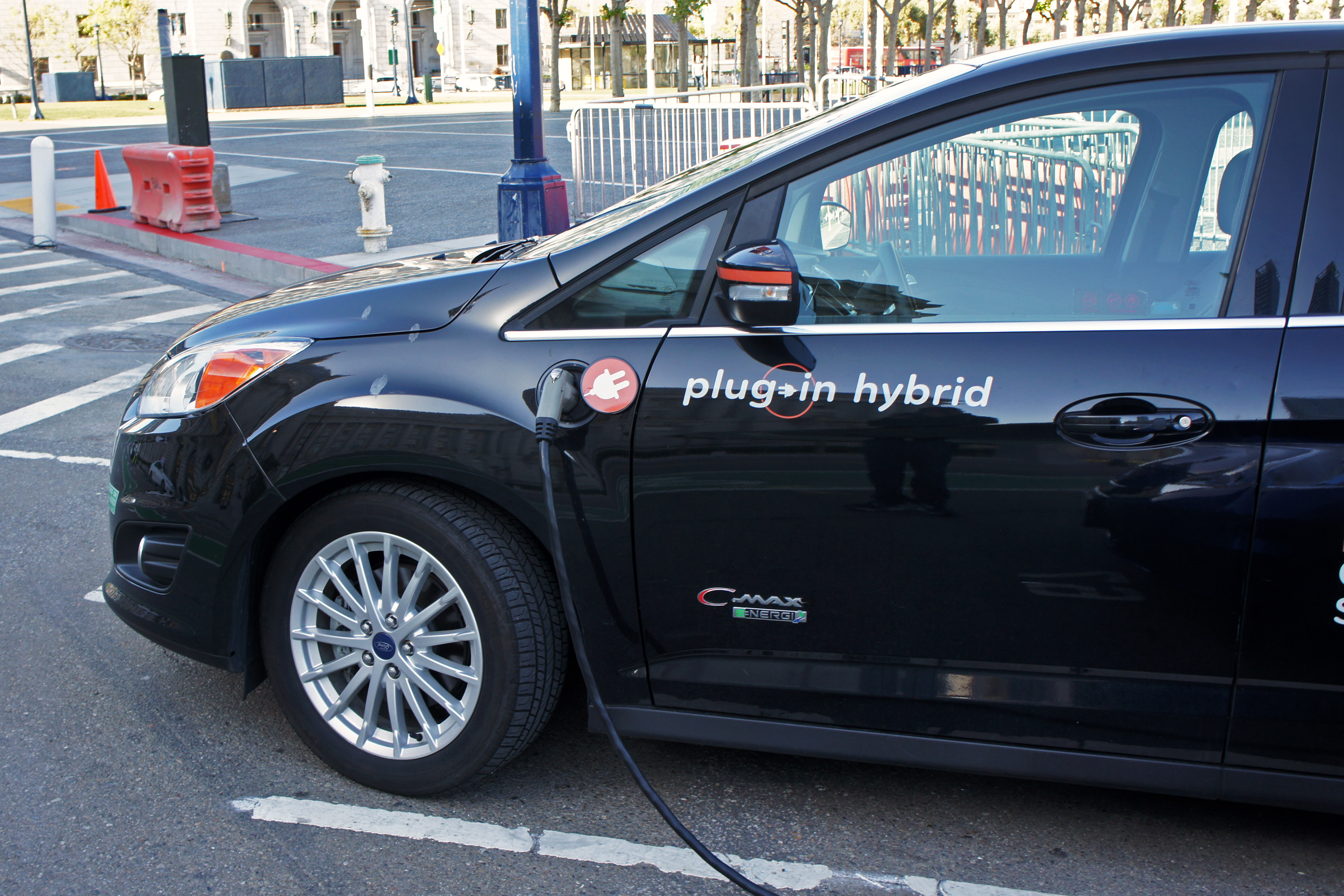 Ford C-Max Energi at a public charging station in front of San Francisco City Hall